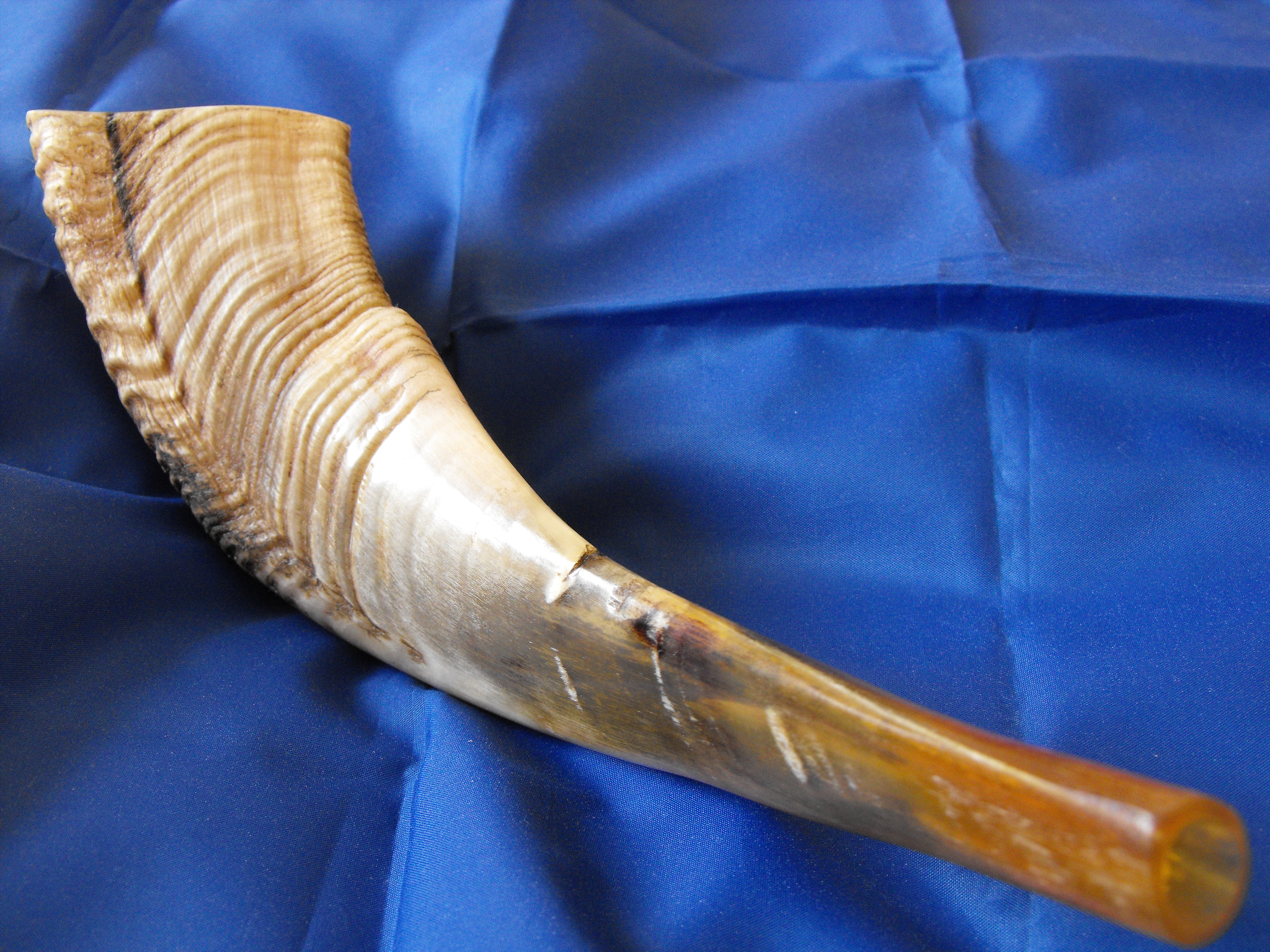 Frank-oil-shofar